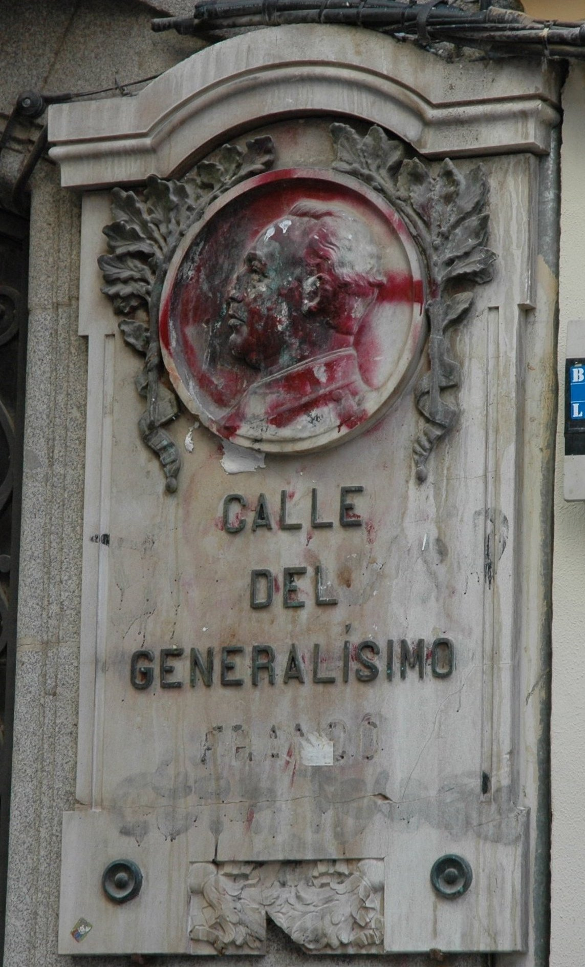 Franco memorial on wall, Avilá, Spain